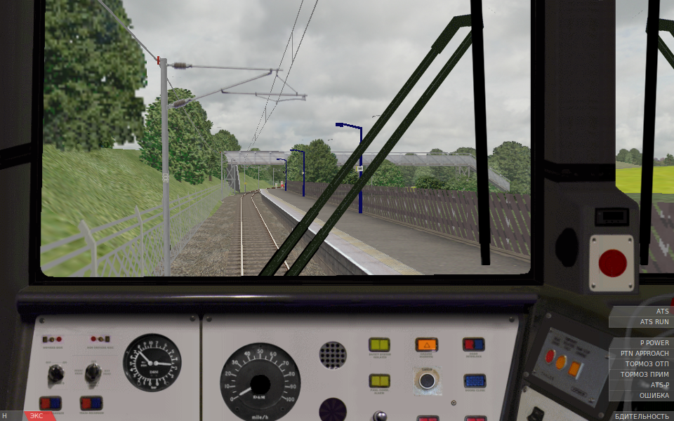 Screenshot of the OpenBVE train simulation video game (v1.4.2).